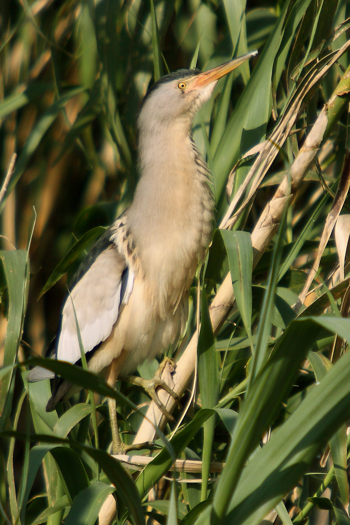 Little bittern at the upper ford near Sigri, Lesvos, Greece